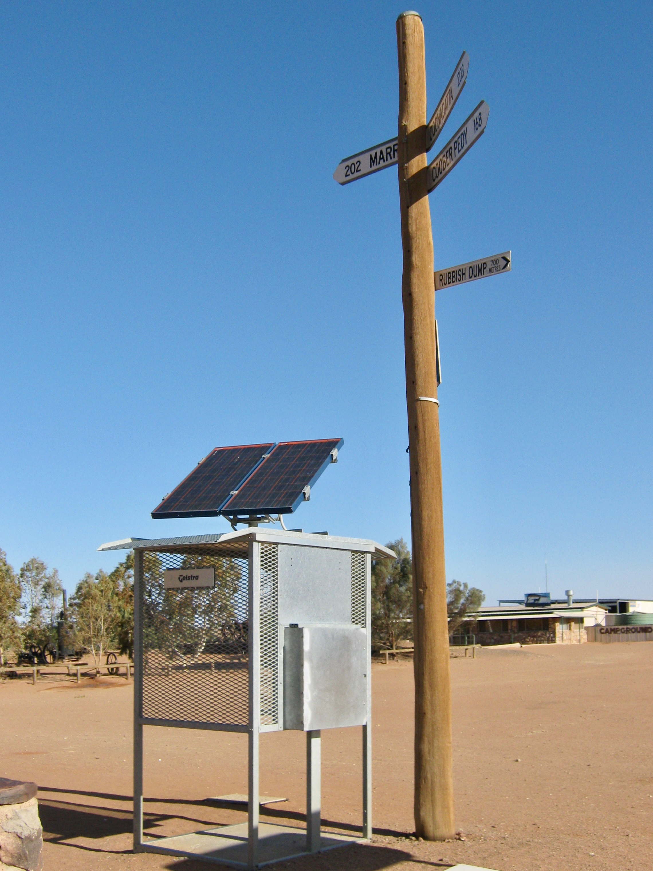 First public solar phone in Australia at William Creek